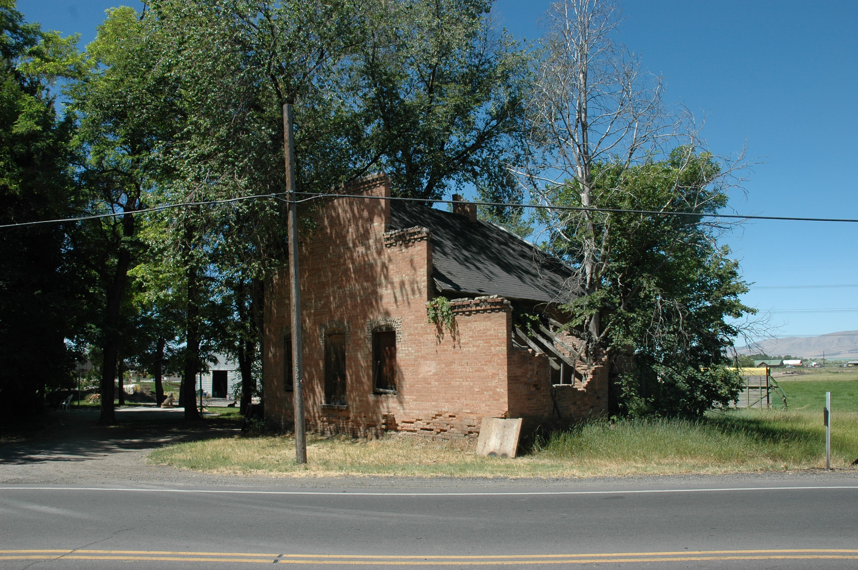 Lakeview Tithing Office, a historic building in Provo, Utah, United States. Now used for farm storage, it is a remnant of the former community of Lakeview.